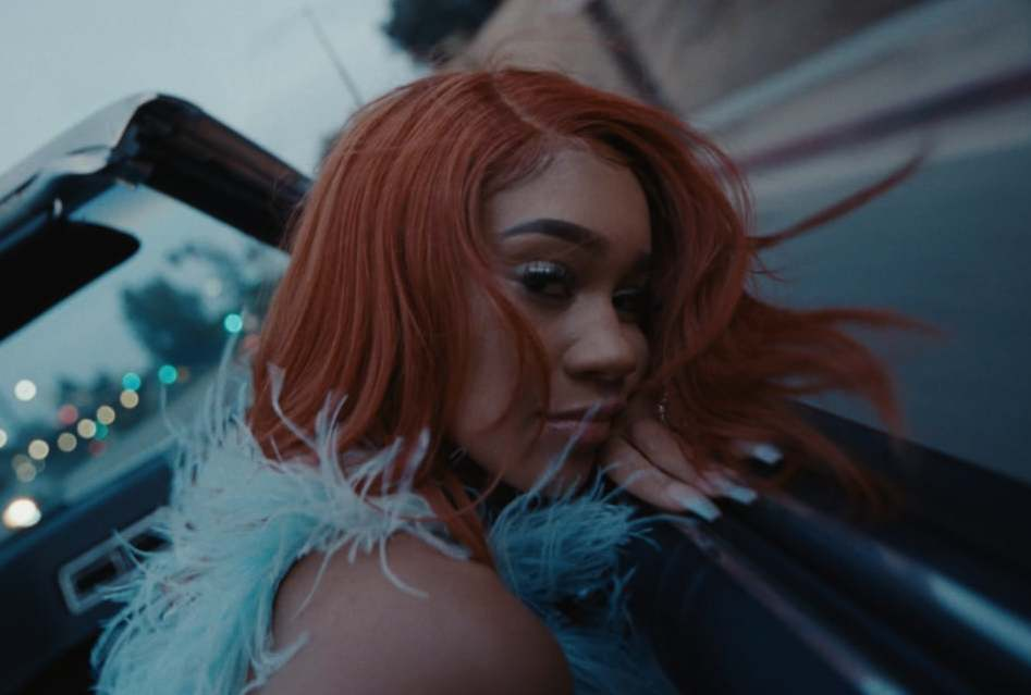 Saweetie in a car